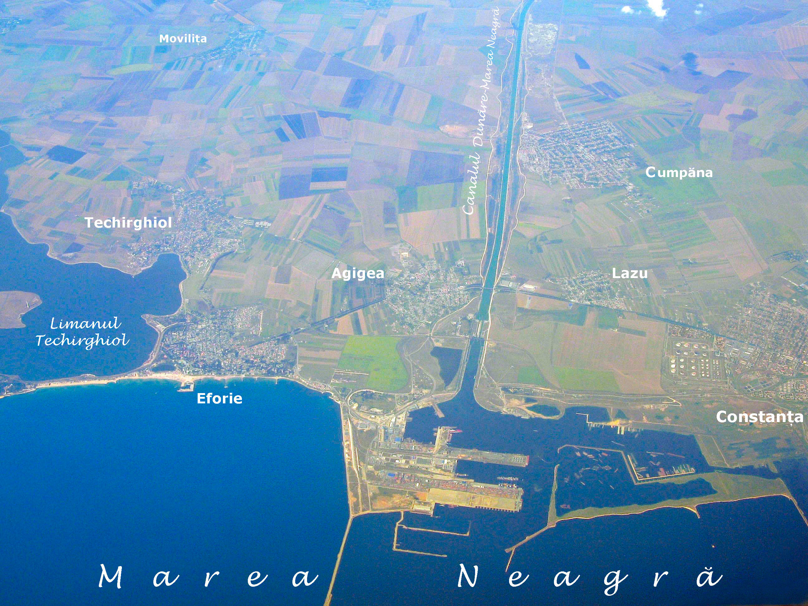 Danube-Black Sea Canal never Agigea (Romania)